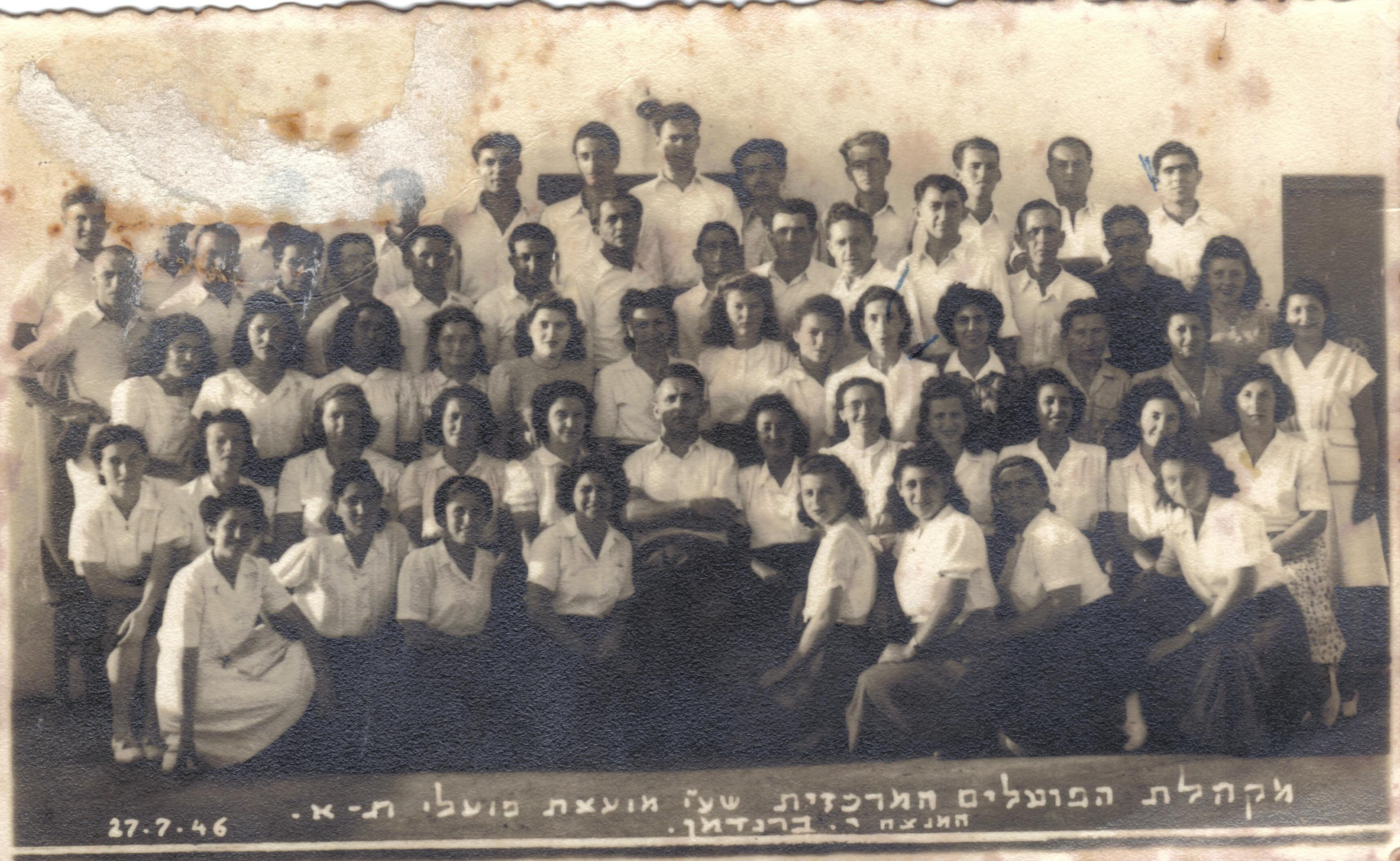 Brandman choir, Art of Israel